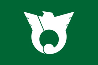 Flag of Hatoyama Saitama